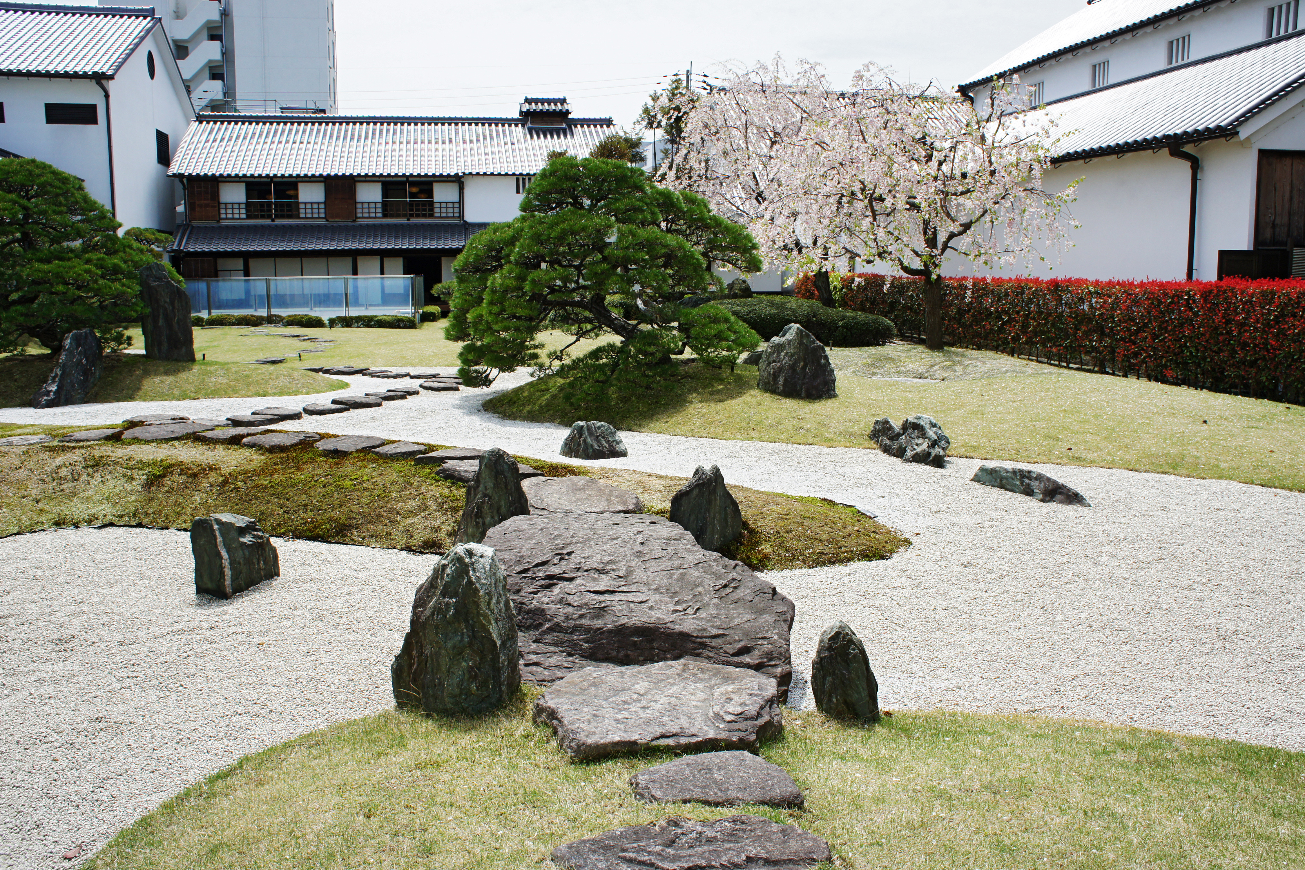 Itami City Museum of Art and Kakimori-bunko in Itami, Hyogo prefecture, Japan